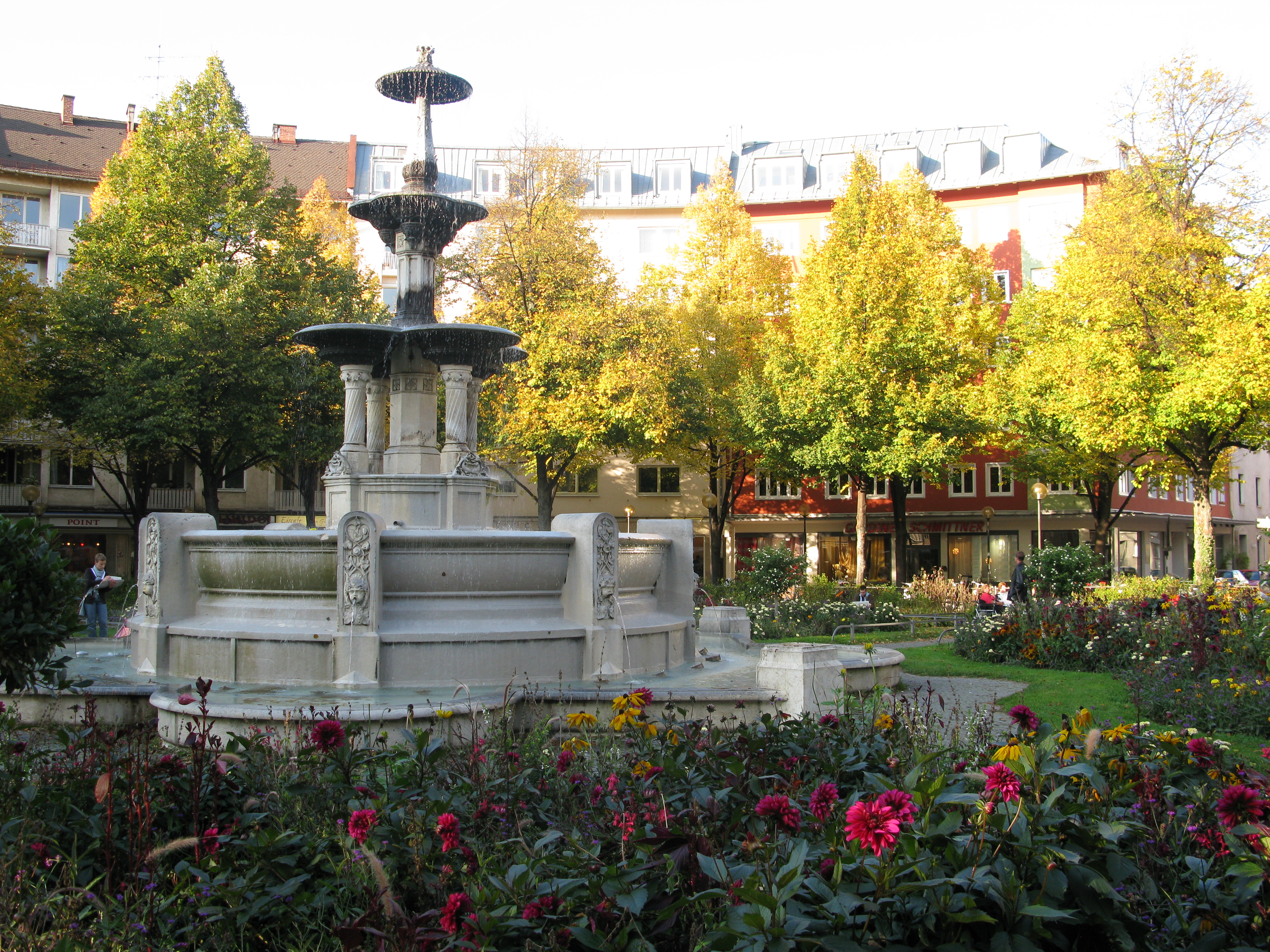 The Weißenburger Platz in the east of Munich (district: Haidhausen) with the Glaspalast-Brunnen in the middle.